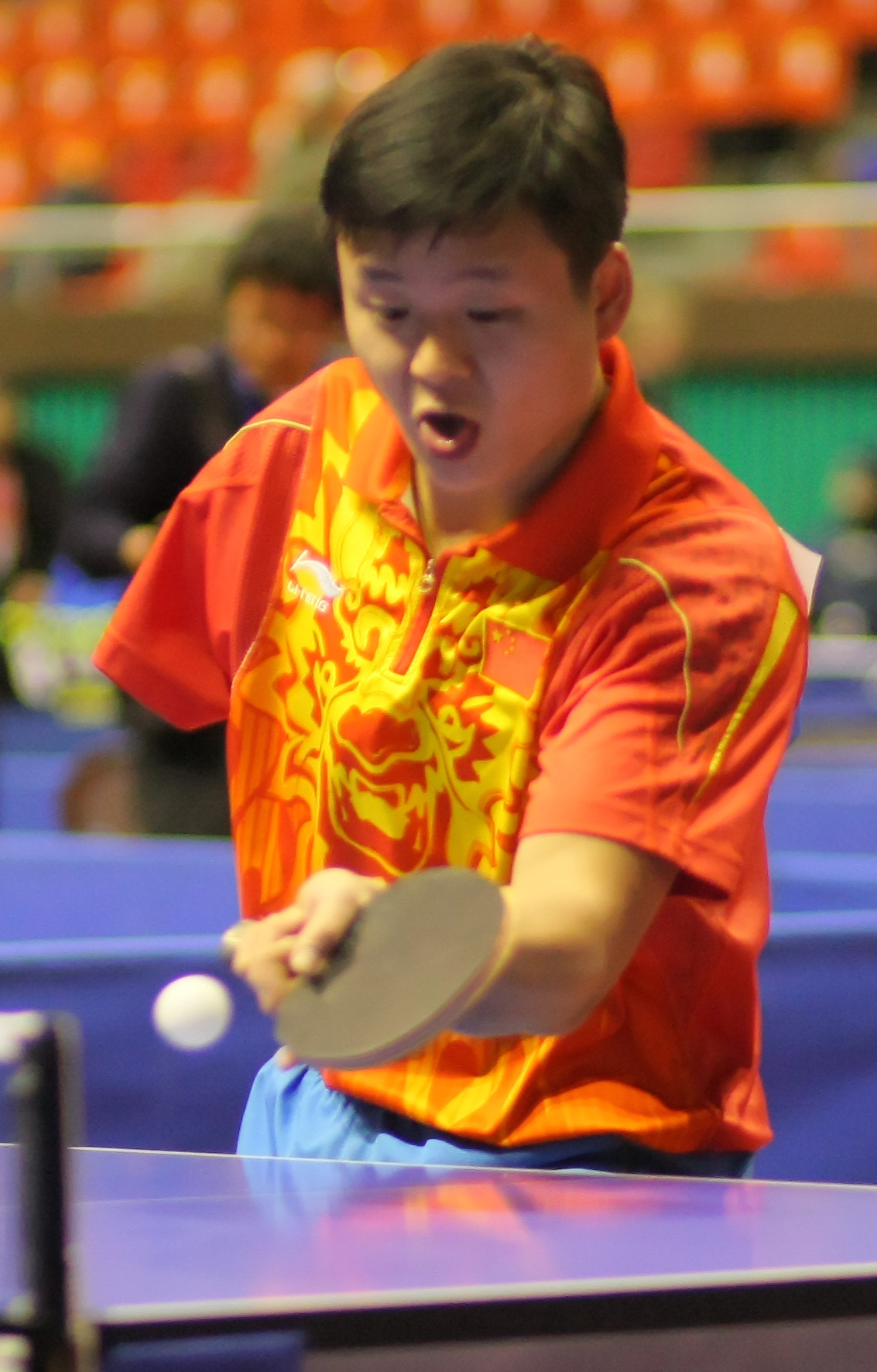 Lu Xiaolei